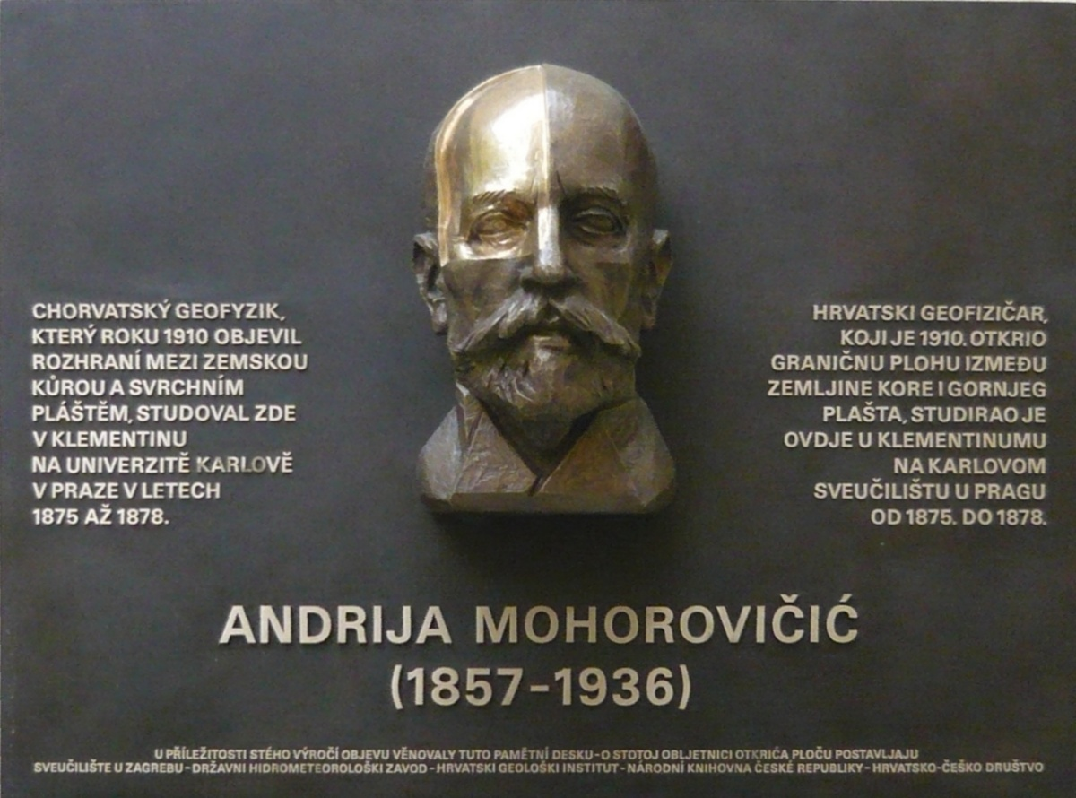 Commemorative plaque of Andria Mohorovičić in Clementinum, Prague, Czech Republic (installed beginns September 2011, festively revealed September 23, 2011)